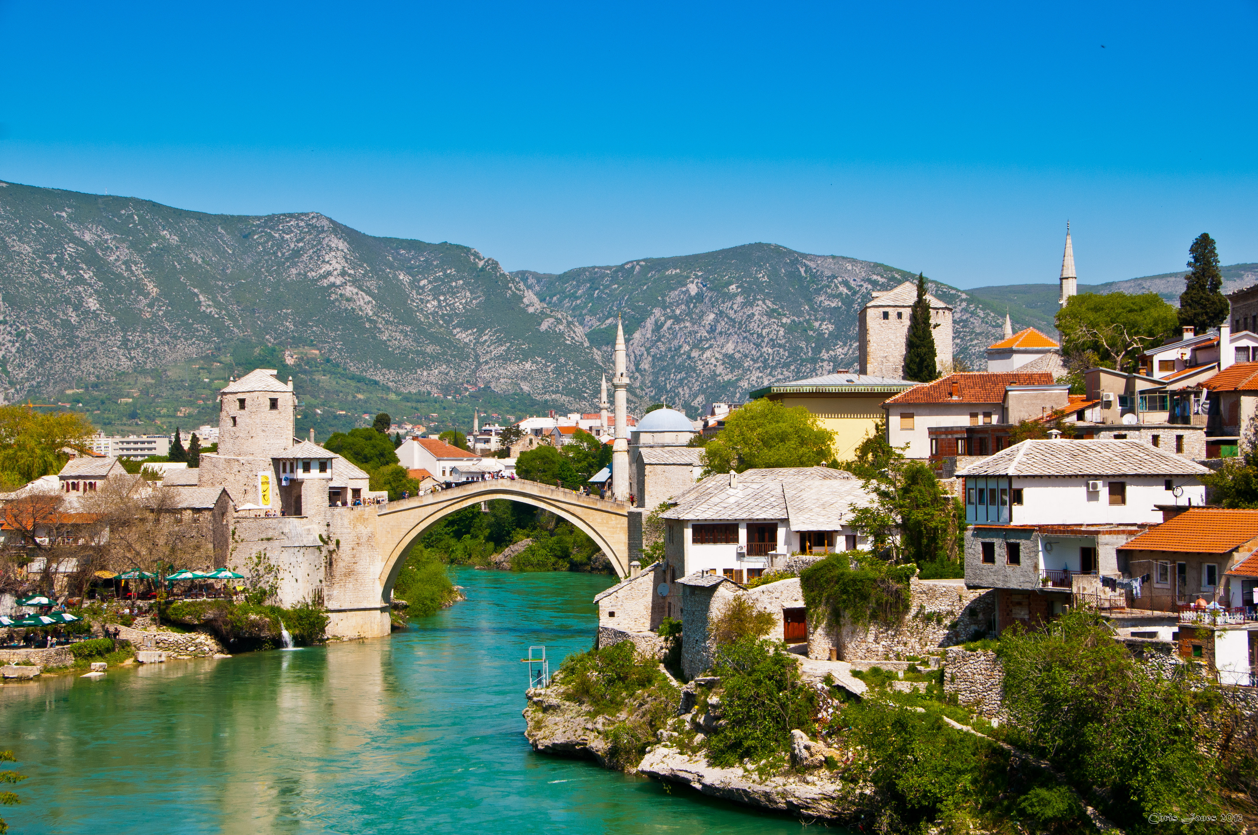 Mostar - The old bridge - Originally built in 1558 - Completely destroyed by Croation rockets in 1993 - rebuilt between 1999 and 2004 with the original stones that were fished from the river below. In July 2005, UNESCO inscribed the Old Bridge and the town in it's immediate vicinity onto the World Heritage List.